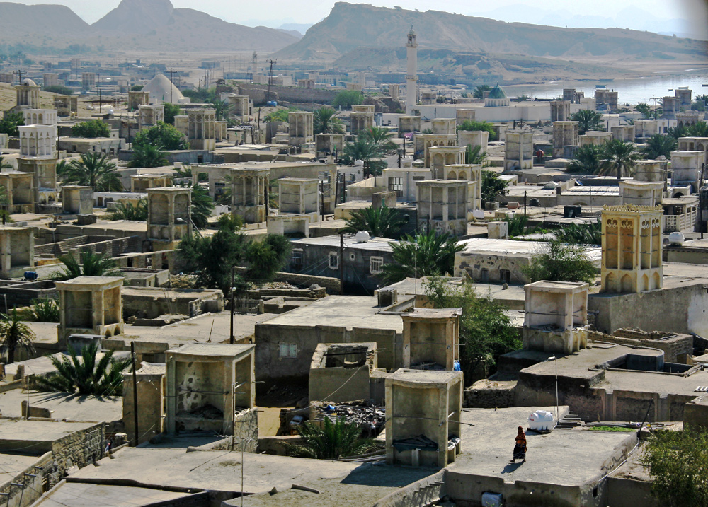 Laft, port village on Qeshm Island, Iran